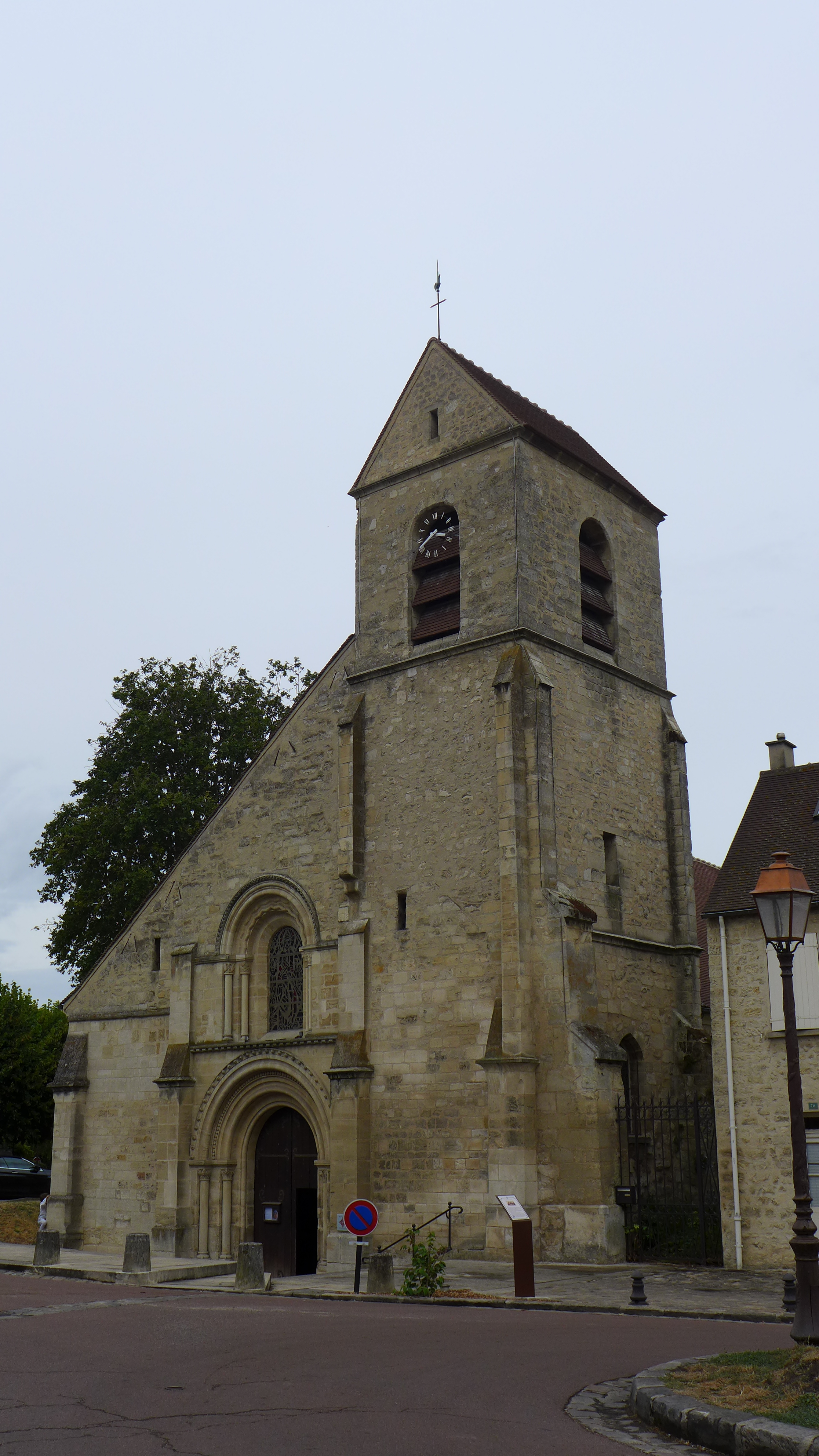 Saint Nicholas Church in the city of Villennes sur Seine